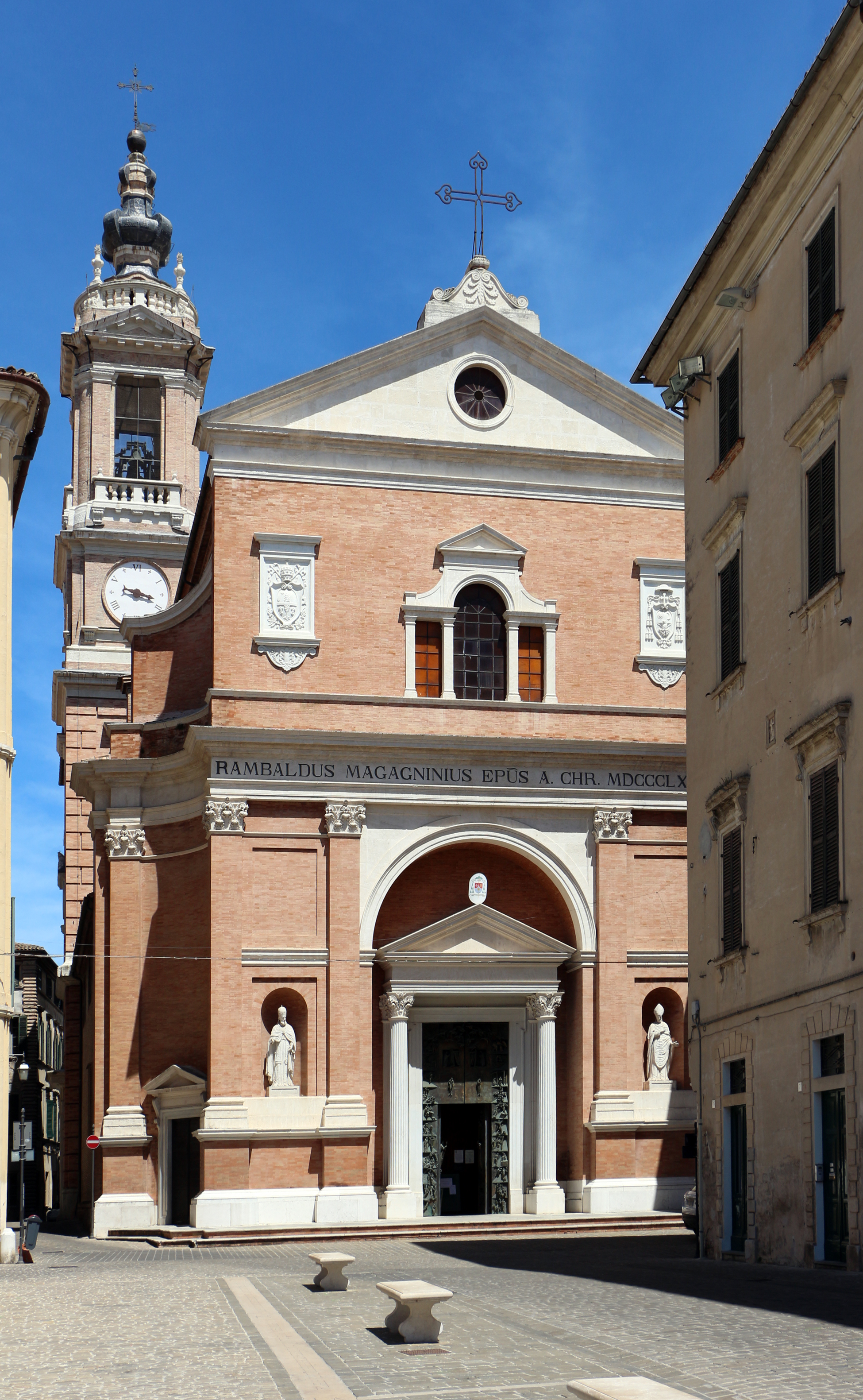 Duomo (Jesi)